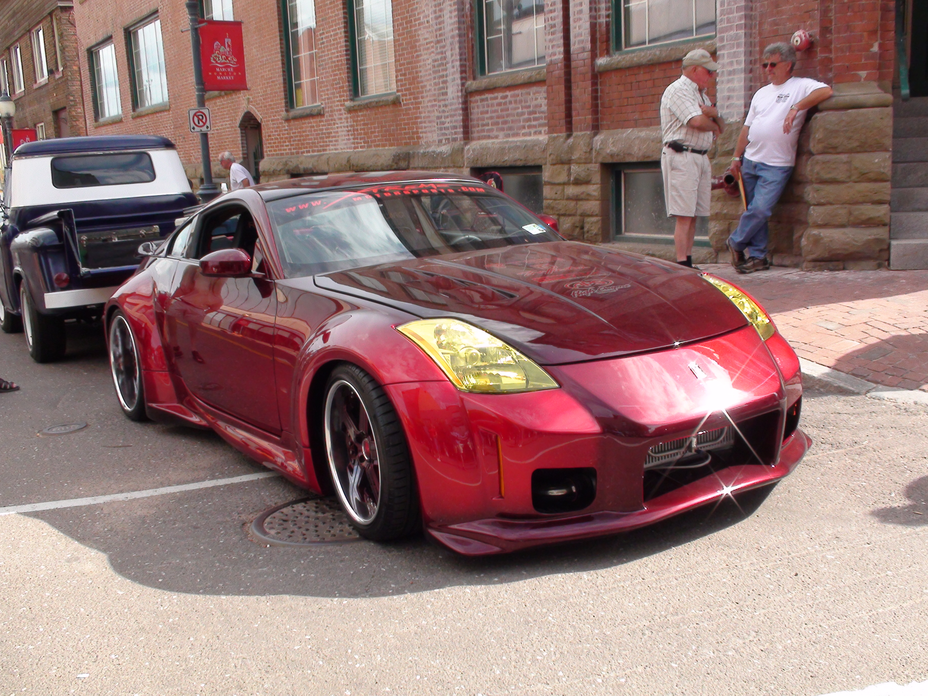 Atlantic Nationals Antique Cars Show in Moncton New Brunswick